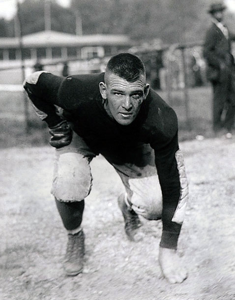 Hank Crisp, VPI football player